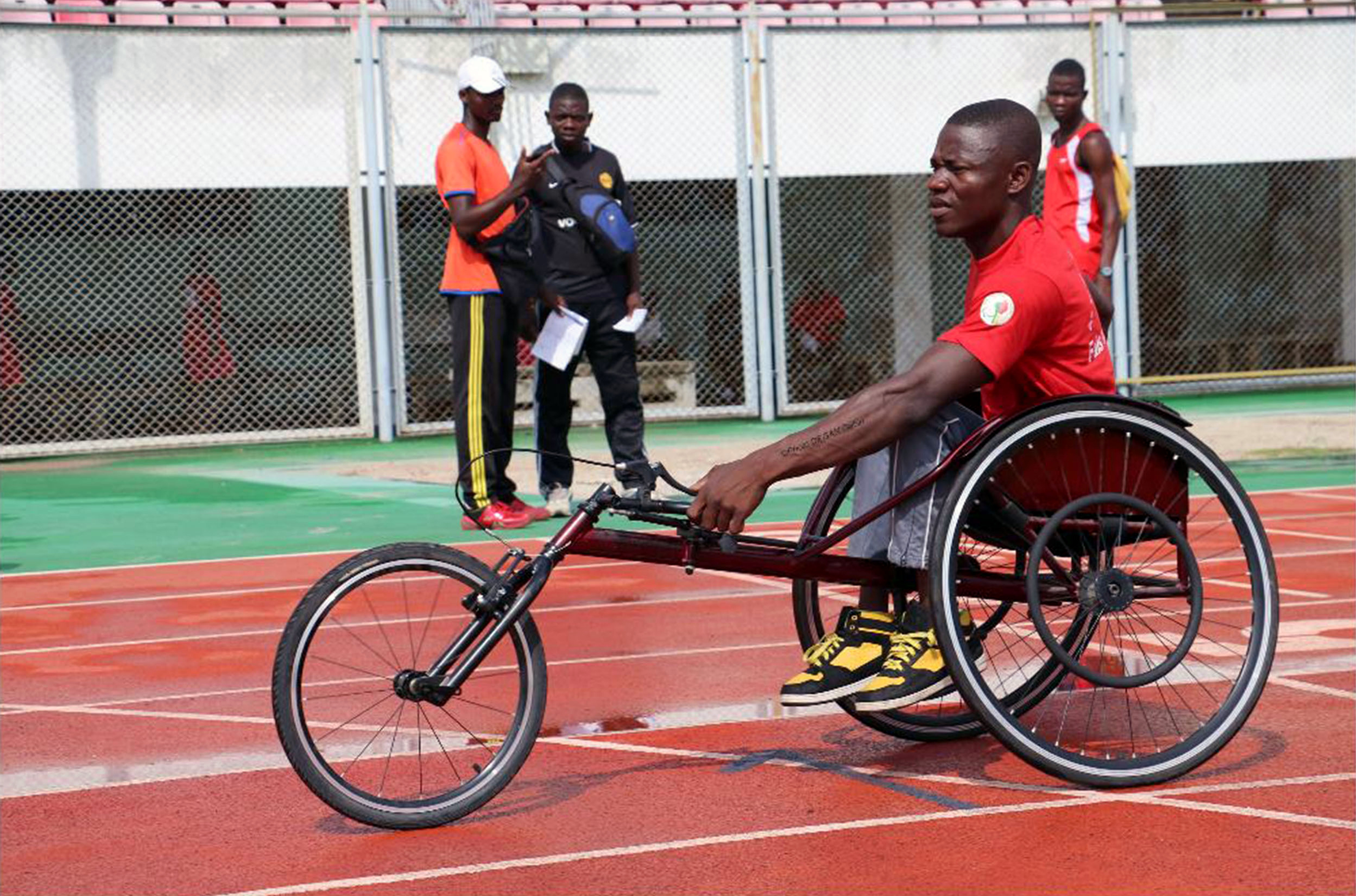 so as not to be maginaler in the sporting society, this handicapped person passes the cycle course like any other sportsman This is an image with the theme "Africa on the Move or Transport" from: Benin